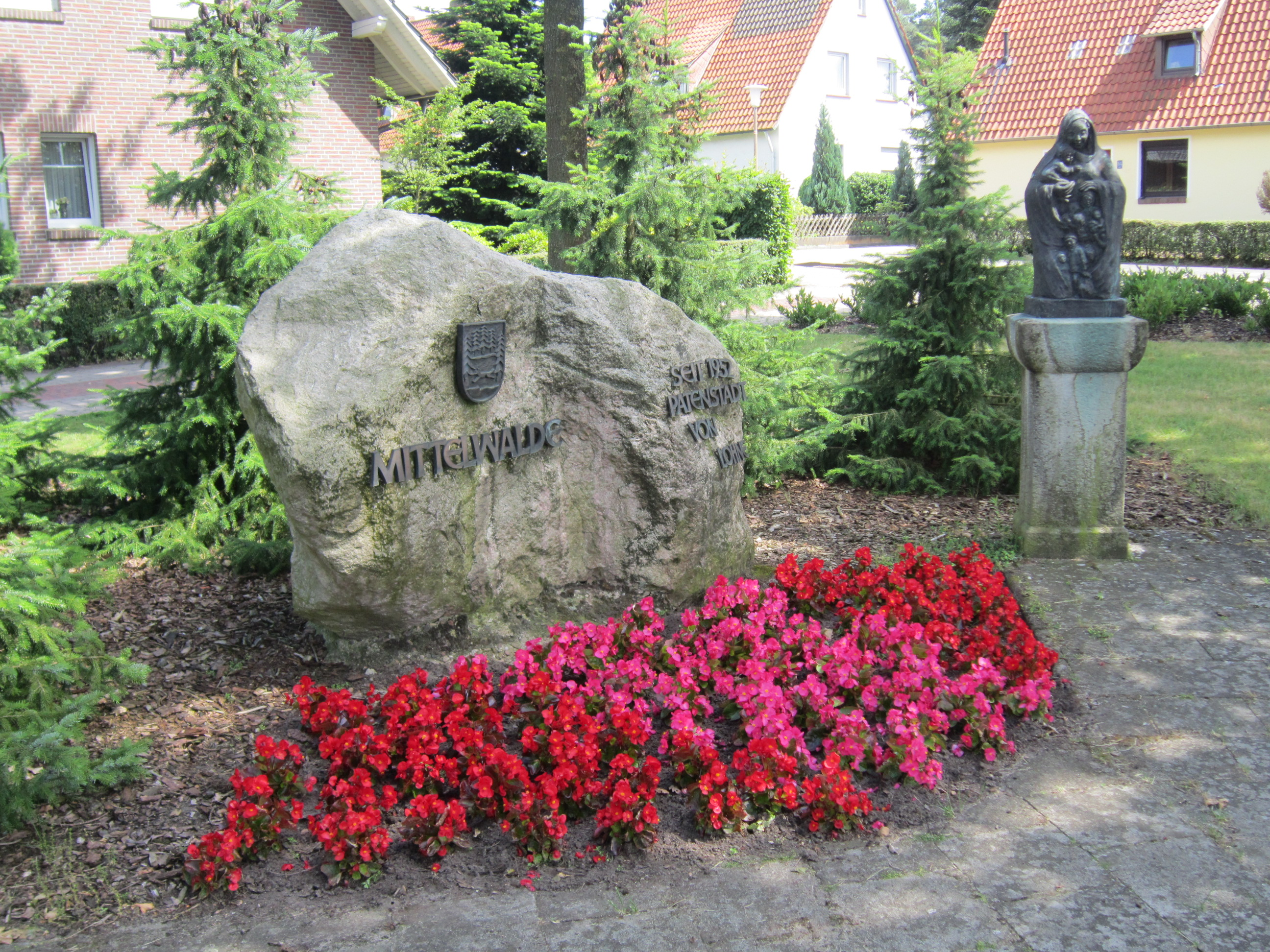 "Mittelwalde Stone" and "Coat Madonna" (bronze sculpture by Judith von Eßen) in Lohne (Oldenburg) in memory of those Silesians that fled vom Mittelwalde (now Międzylesie) to Lohne in 1946